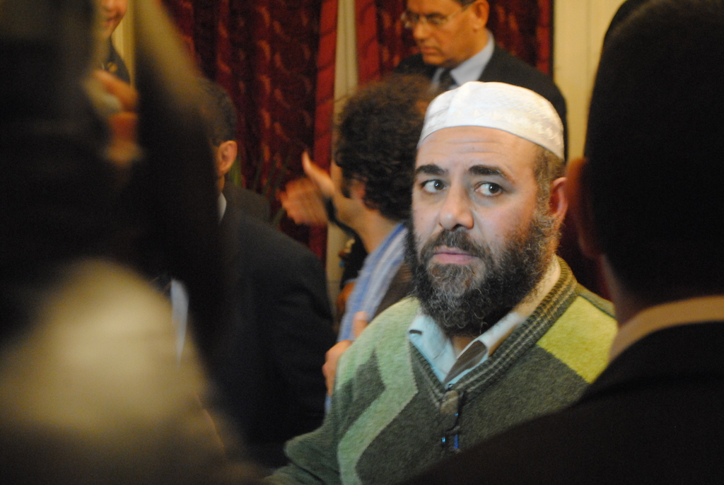 Tarek Zomor/Tarek al-Zumar of The Construction and Development party